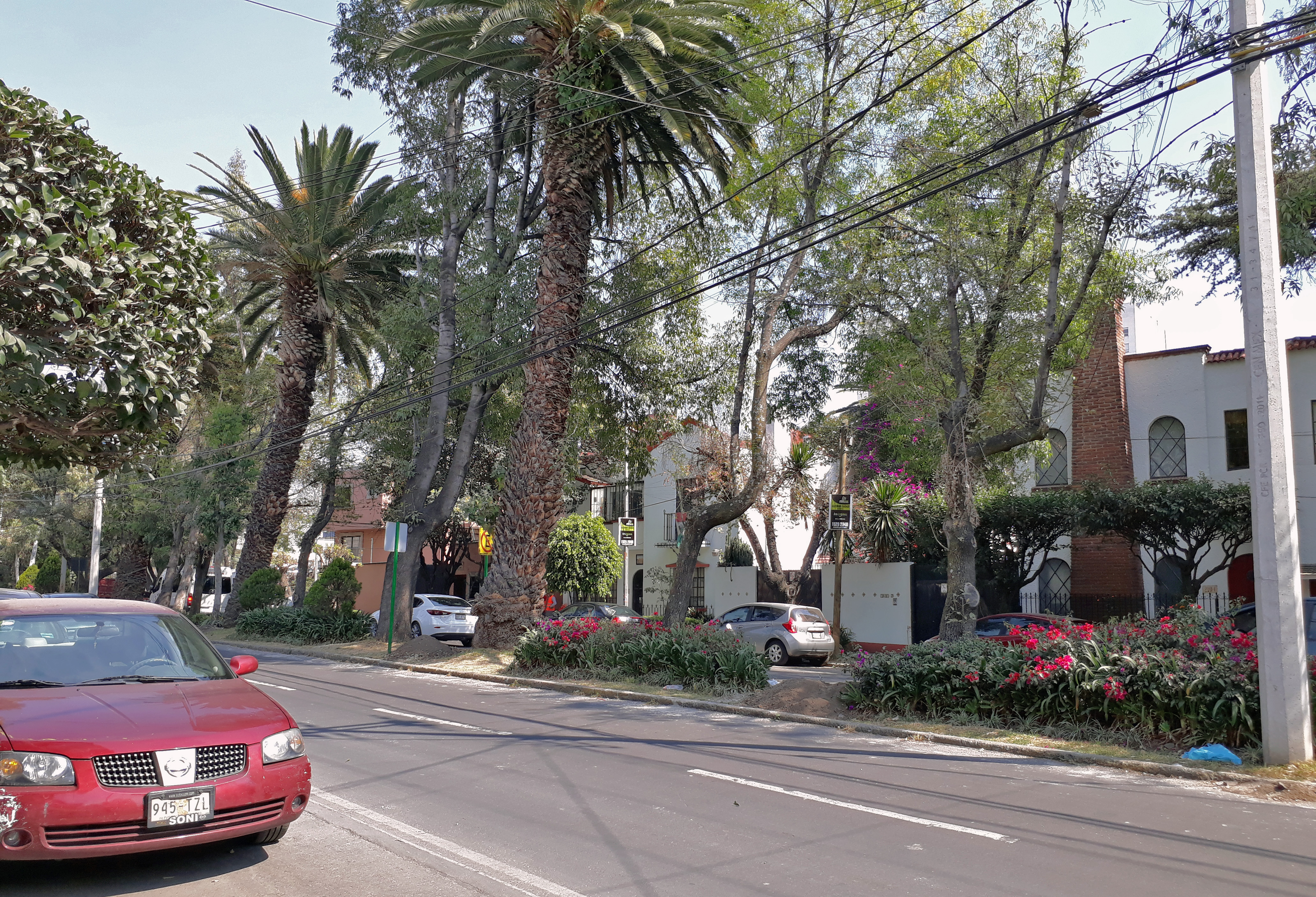 Manuel M. Ponce street in Guadalupe Inn neighbourhood, southern México City